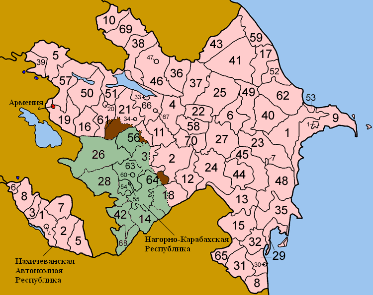 Administrative divisions of Azerbaijan. Legend: pink - territory, administered by Azerbaijan (no claims by other countries), green - administred by Nagorno-Karabakh Republic, claimed by Azerbaijan, brown - administered by Azerbaijan, claimed by Nagorno-Karabakh Republic, red - administered by Azerbaijan, claimed by Armenia, blue - administred by Armenia, claimed by Azerbaijan. 1. Absheron 2. Agjabadi 3. Agdam 4. Agdash 5. Agstafa 6. Agsu 7. Ali Bayramli city 8. Astara 9. Baku city 10. Balakan 11. Barda 12. Beylagan 13. Bilasuvar 14. Jabrayil 15. Jalilabad 16. Dashkasan 17. Davachi 18. Fizuli 19. Gadabay 20. Ganja city 21. Goranboy 22. Goychay 23. Hajigabul 24. Imishli 25. Ismailli 26. Kalbajar 27. Kurdamir 28. Lachin 29. Lankaran 30. Lankaran city 31. Lerik 32. Masally 33. Mingachevir city 34. Naftalan city 35. Oguz 36. Neftchala 37. Qabala 39. Qazakh 40. Qobustan 41. Quba 42. Qubadli 43. Qusar 44. Saatly 45. Sabirabad 46. Shaki 47. Shaki city 48. Salyan 49. Shamakhi 50. Shamkir 51. Samukh 52. Siazan 53. Sumqayit city 54. Shusha 55. Shusha city 56. Tartar 57. Tovuz 58. Ujar 59. Khachmaz 60. Khankendi city 61. Khanlar 62. Khizi 63. Khojali 64. Khojavend 65. Yardymli 66. Yevlakh 67. Yevlakh city 68. Zangilan 69. Zaqatala 70. Zardab Nakhichevan Autonomous Republic: 1. Babek 2. Julfa 3. Kangarli 4. Nakhichevan 5. Ordubad 6. Sadarak 7. Shakhbuz 8. Sharur